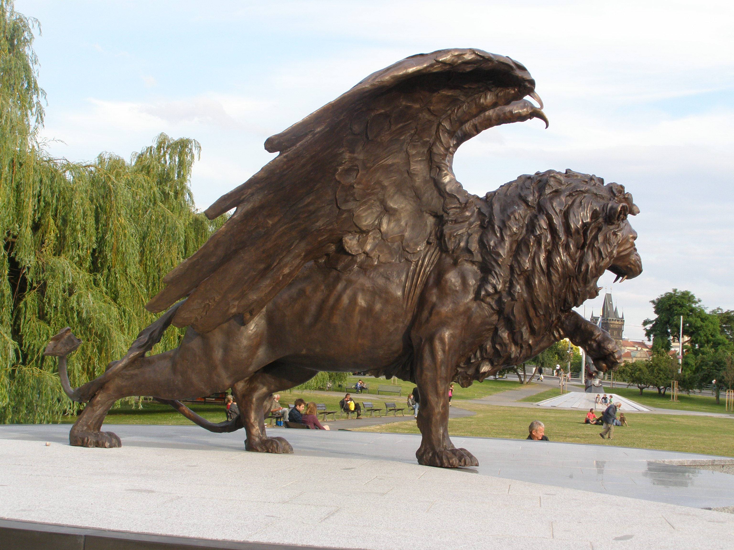 Czech Republic, Prague, Klárov, date of unveiling the monument 17. June 2014. Winged lion. This monument is an expression of the British community’s lasting gratitude to the 2,500 Czechoslovak airmen who served with the Royal Air Force between 1940 and 1945 for the freedom of Europe. Many were subsequently persecuted by the communist regime in Czechoslovakia.